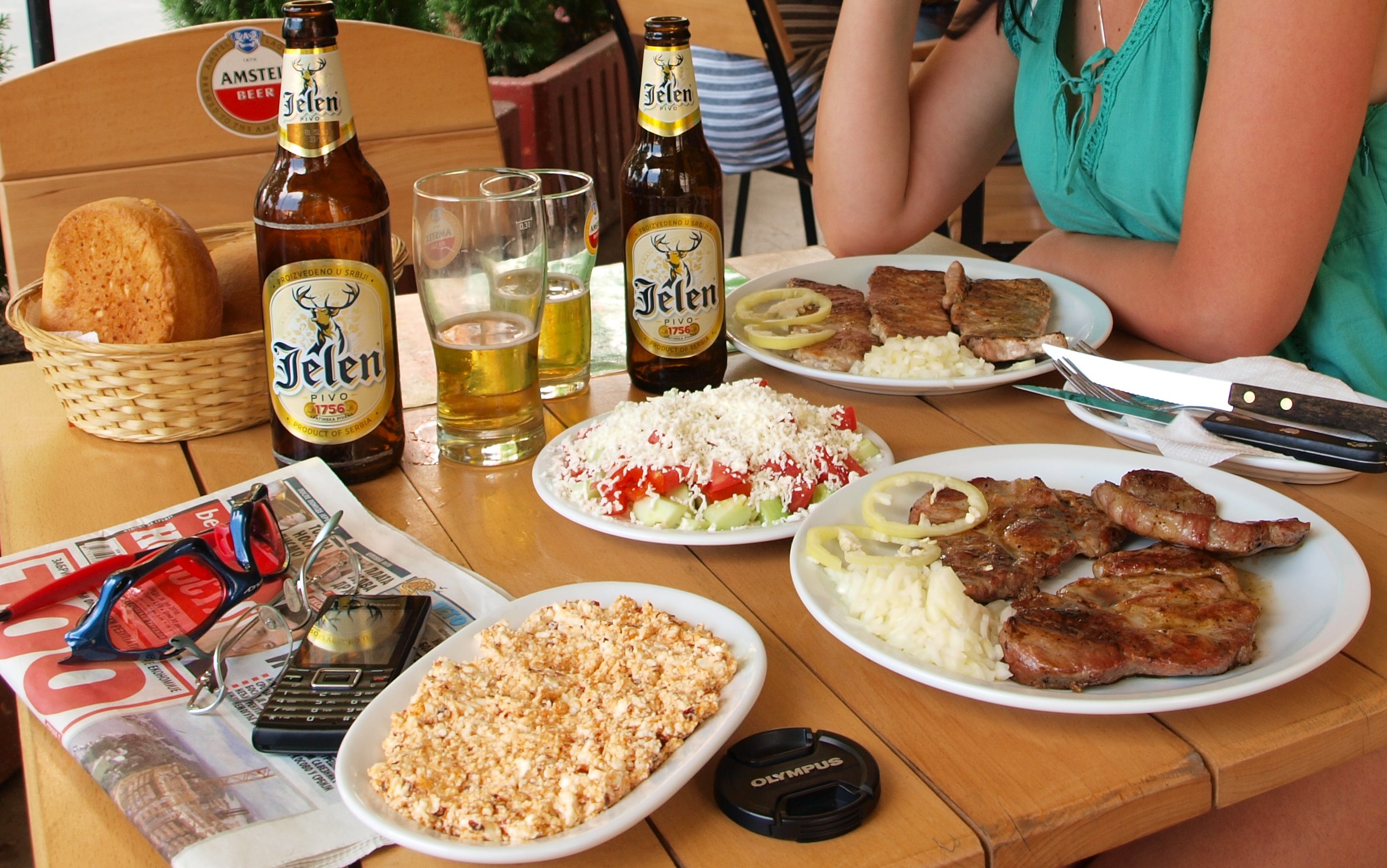 Serbian cuisine.